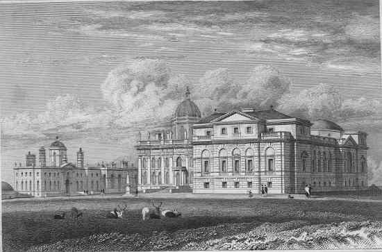 A north west view of Castle Howard, Yorkshire, home of the Howard family. Built circa 1712, original design by Sir John Vanburgh. Picture shows the west wing added in the mid 18th century. This was first published in: Jones' Views of the Seats, Mansions, Castles etc of Noblemen and Gentlemen in England, Wales, Scotland and Ireland and Other Picturesque Scenery Accompanied With Historical Descriptions of the Mansions, Lists of Pictures, Statues etc and Genealogical Sketches of the Families and Their Possessions: Forming Part of the General Series of Jones' Great Britain Illustrated (1829). Volume 5. Second Series. London: Jones & Company.[1]